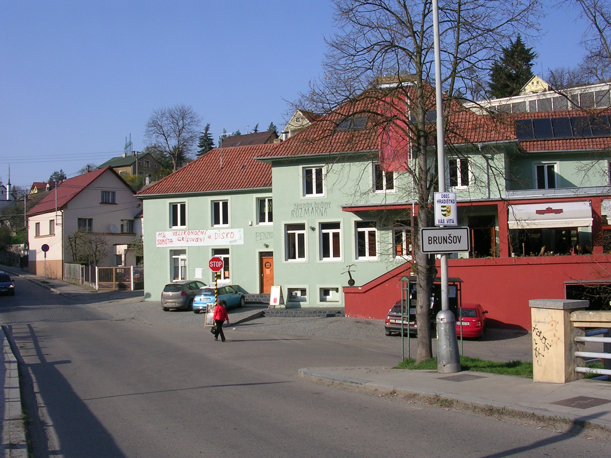 Hradištko, Central Bohemian Region, the Czech Republic.